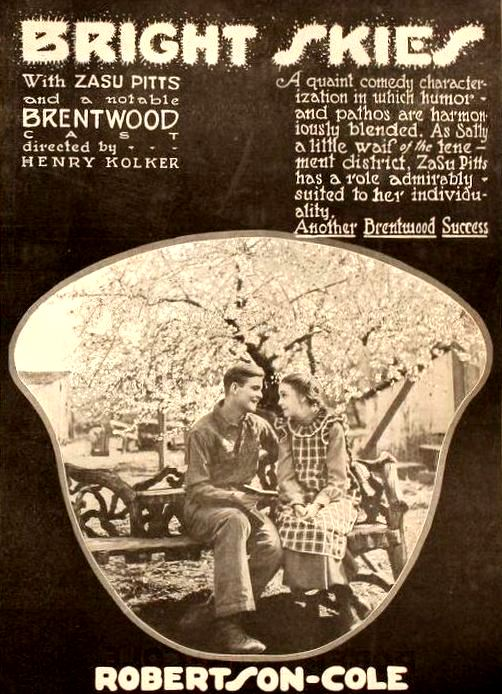 Advertisement for the American drama film Bright Skies (1920) with ZaSu Pitts and Tom Gallery, on page 2837 of the March 27, 1920 Motion Picture News.